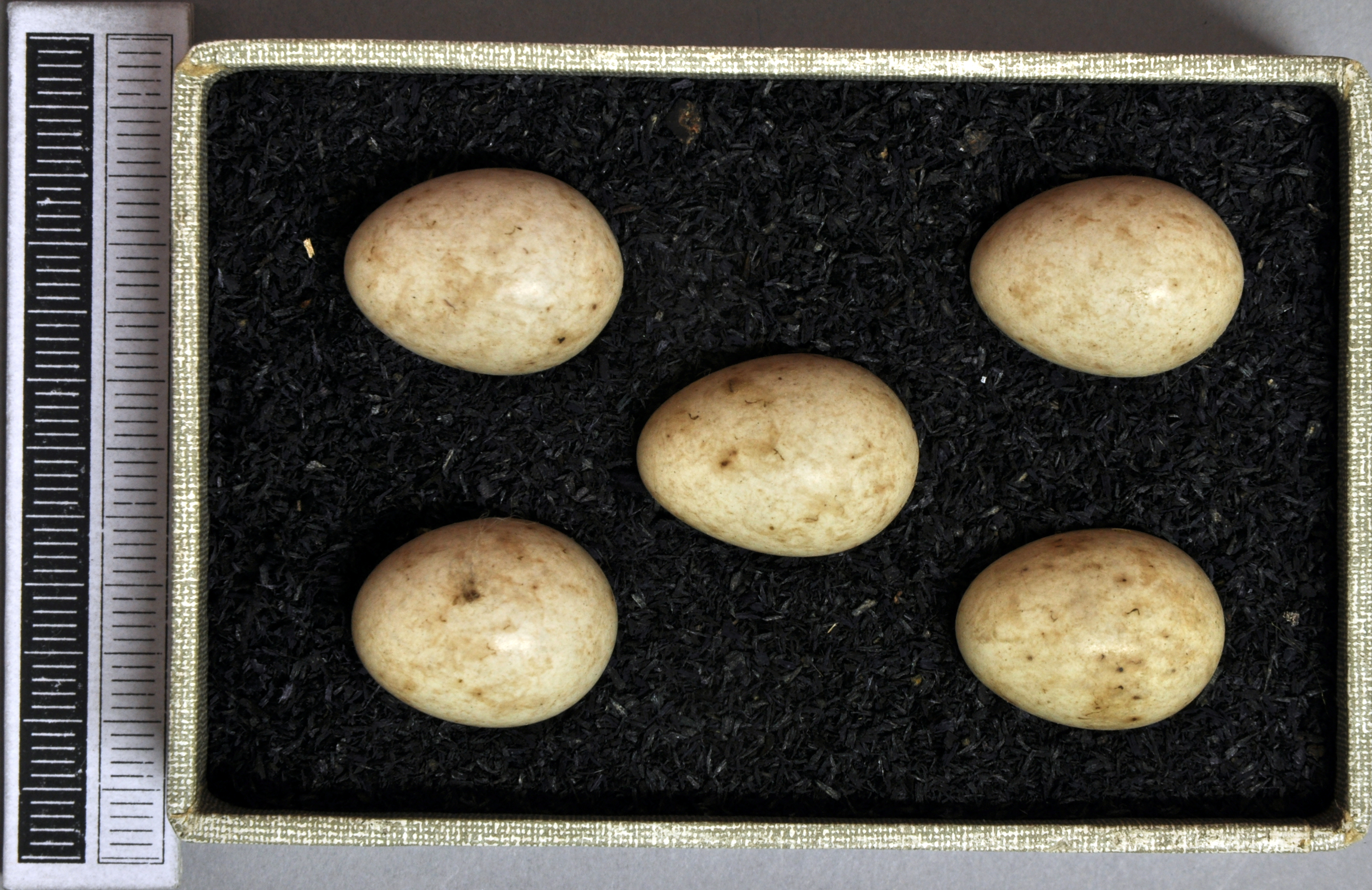 Garden warbler Sylvia borin , egg, Coll. Museum Wiesbaden